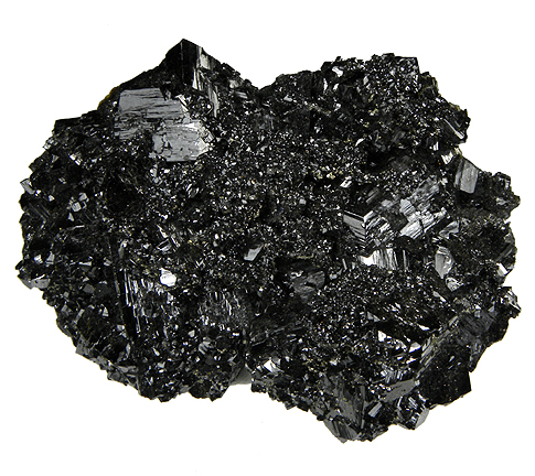 Cassiterite Locality: Botallack Mine, Botallack, Botallack - Pendeen Area, St Just District, Cornwall, England, UK (Locality at ) Size: 6.1 x 4.6 x 1.7 cm. An attractive Cassiterite specimen from Cornwall with bright, lustrous, jet-black twinned crystals. The piece is from the collection of Richard Kosnar and his hand-written label is glued to the back. The label states that the piece was received in trade from a museum in Prague, and there is a small white label with the number "2352" on the reverse side of the piece.